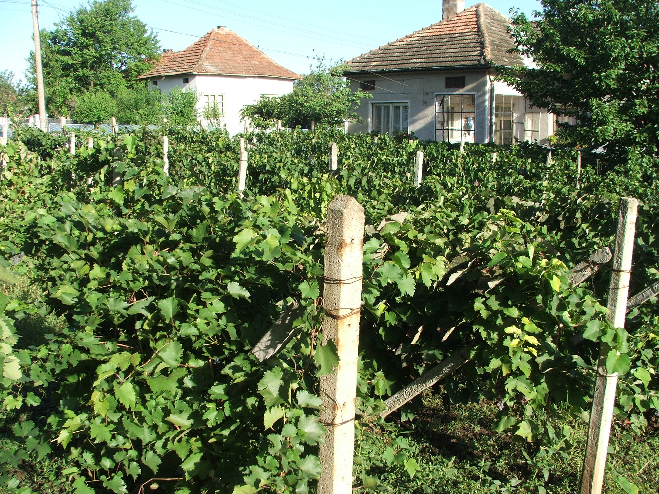 Лозе в макък двор